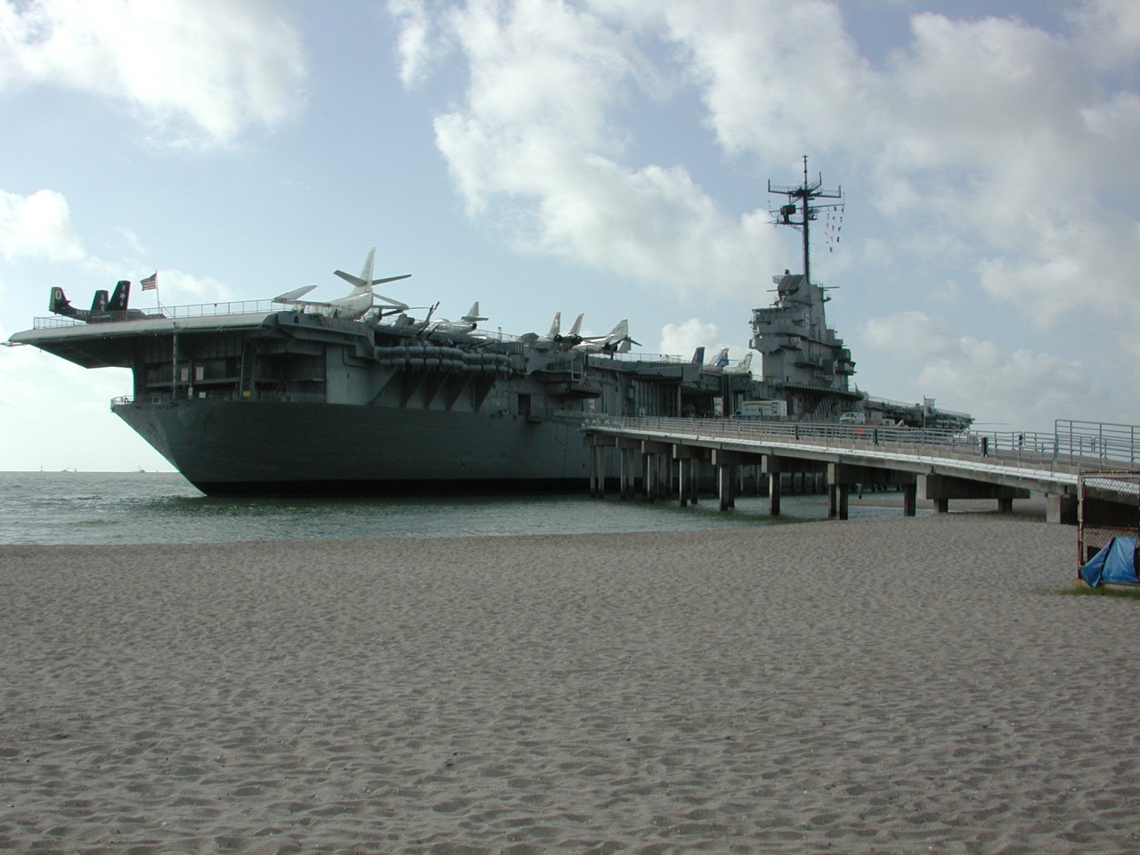 The ship was the oldest working carrier in the United States Navy when decommissioned in 1991. Lexington, an Essex-class carrier, was originally named the USS CABOT. During World War II, the final work on it was being completed at Massachusetts' Fore River Shipyard when word was received that the original carrier named USS LEXINGTON, CV-2, had been sunk in the Coral Sea. A campaign was launched to change the new carrier's name to Lexington, and the rest is history. The USS LEXINGTON, CV-16, was commissioned on February 17, 1943.